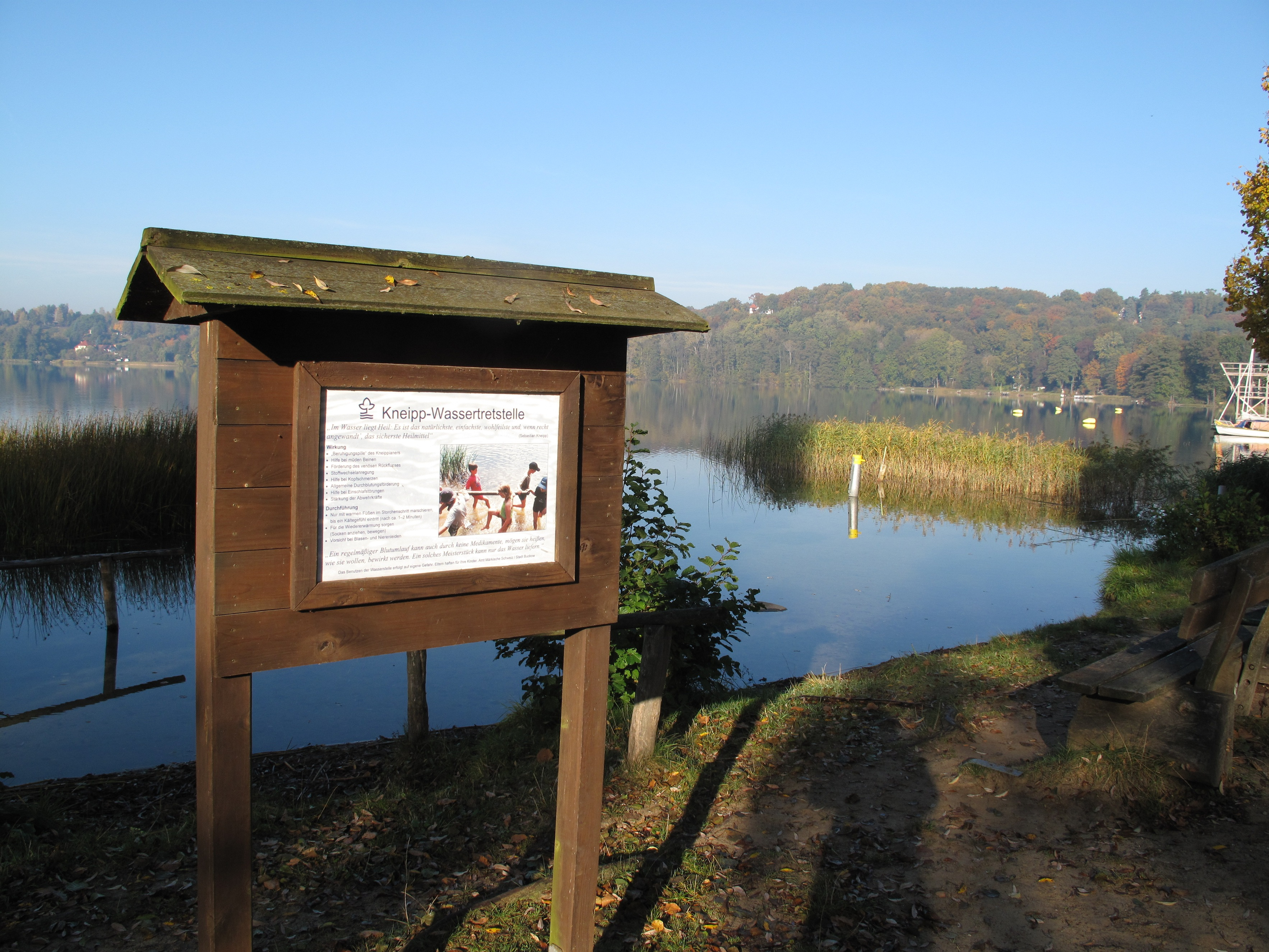 Treading water place devised by Sebastian Kneipp at the eastern shore of the Schermützelsee. The Schermützelsee is a lake in Buckow, District Märkisch-Oderland, Brandenburg, Germany. The lake covers 137 hectare and is the largest water in the hill country „Märkische Schweiz“ and in the Märkische Schweiz Nature Park.